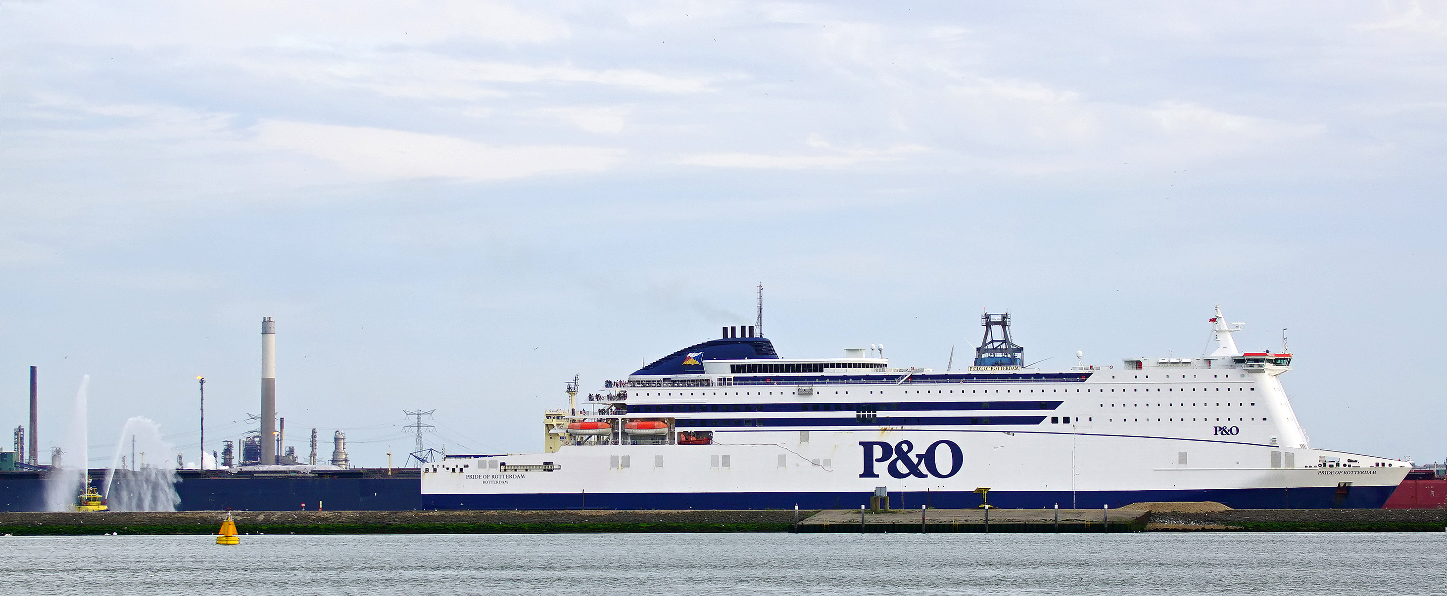 P&O ferry Pride of Rotterdam, Calandkanaal, Rotterdam